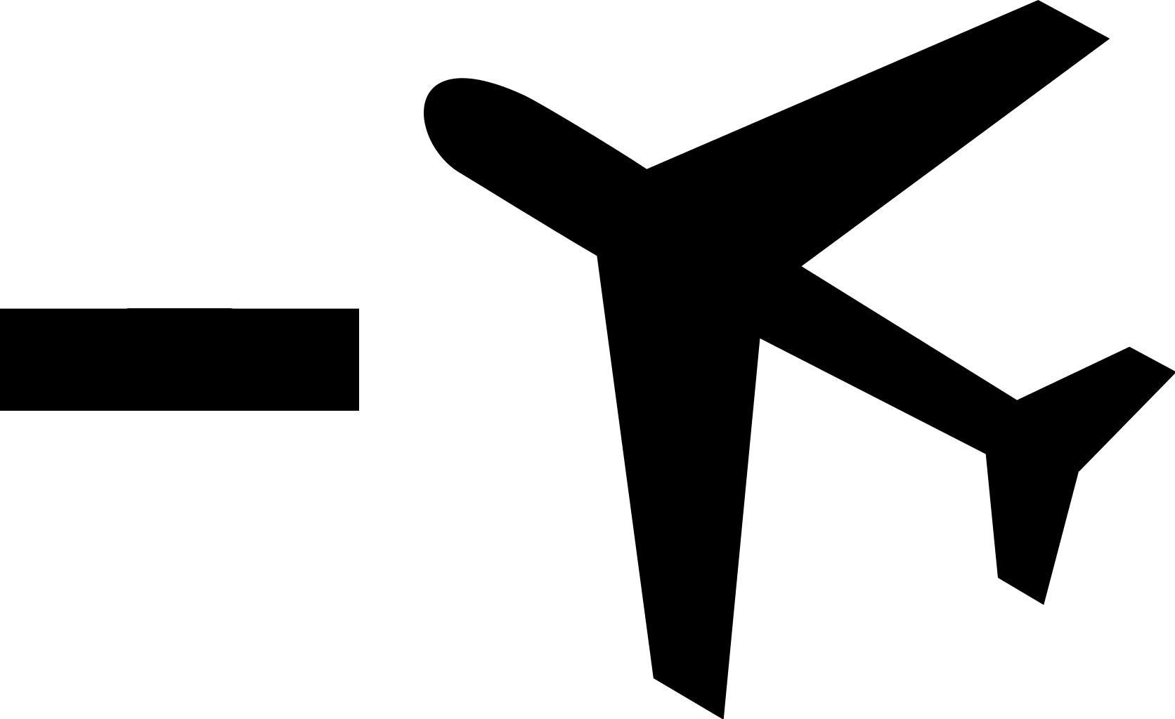 Airplanes emit particles and gases such as carbon dioxide (CO2), water vapor, hydrocarbons, carbon monoxide, nitrogen oxides, sulfur oxides, lead, and black carbon which cause global warming.